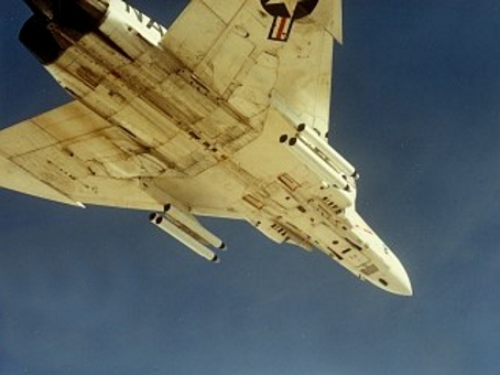 US Navy McDonnell Douglas F-4J Phantom II (BuNo 153812) of VX-5 with AIM-95 Agile air-to-air missiles.